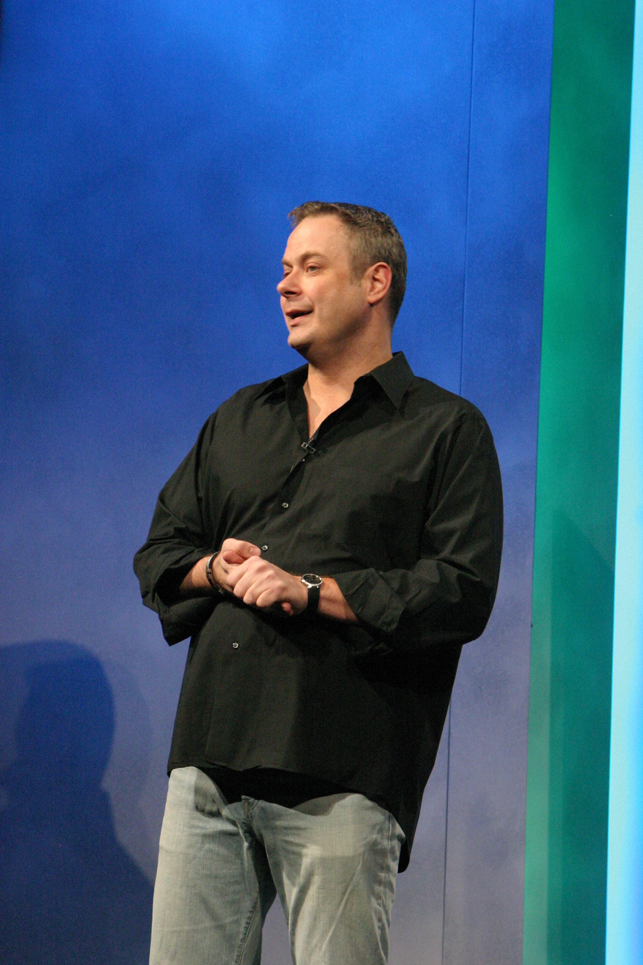 Ray Winninger at MIX08